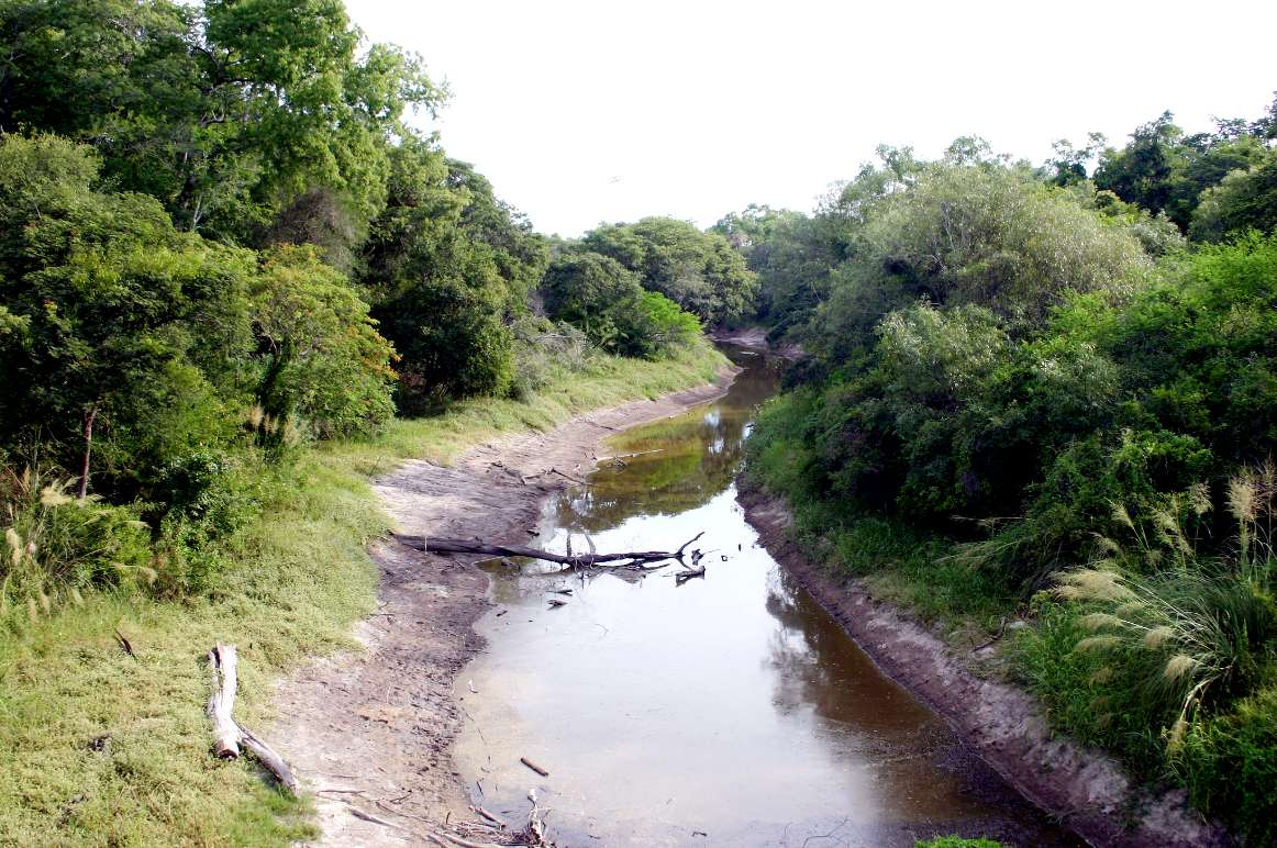 Bosque ribereño. Selva en galería. Formación arbórea que acompaña a los ríos de la región.